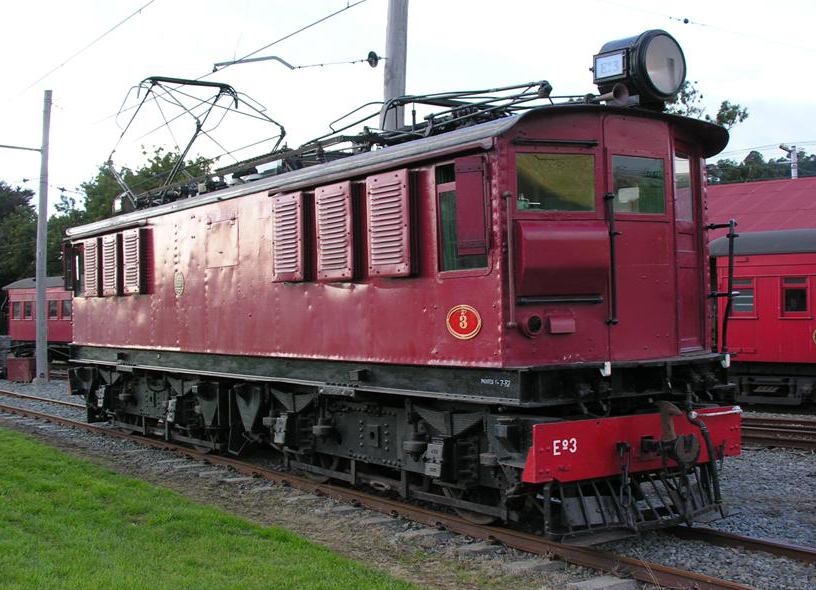 NZR EO class number 3 at Ferrymead, taken on the FRONZ conference Ferrymead trip.